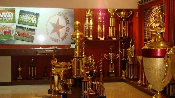 Memorial do Rio Branco Football Club, localizado na sede do clube.